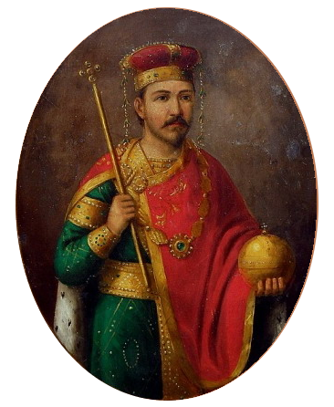 Portrait of Tsar Ivan Asen II